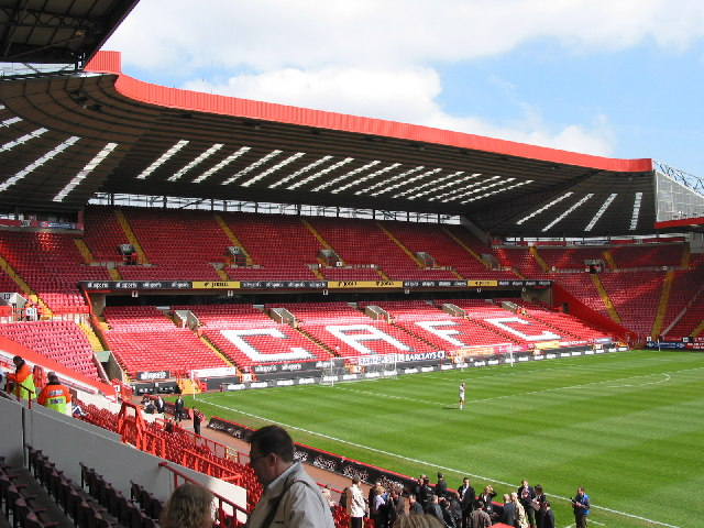 The valley at Charlton. The famous north stand.